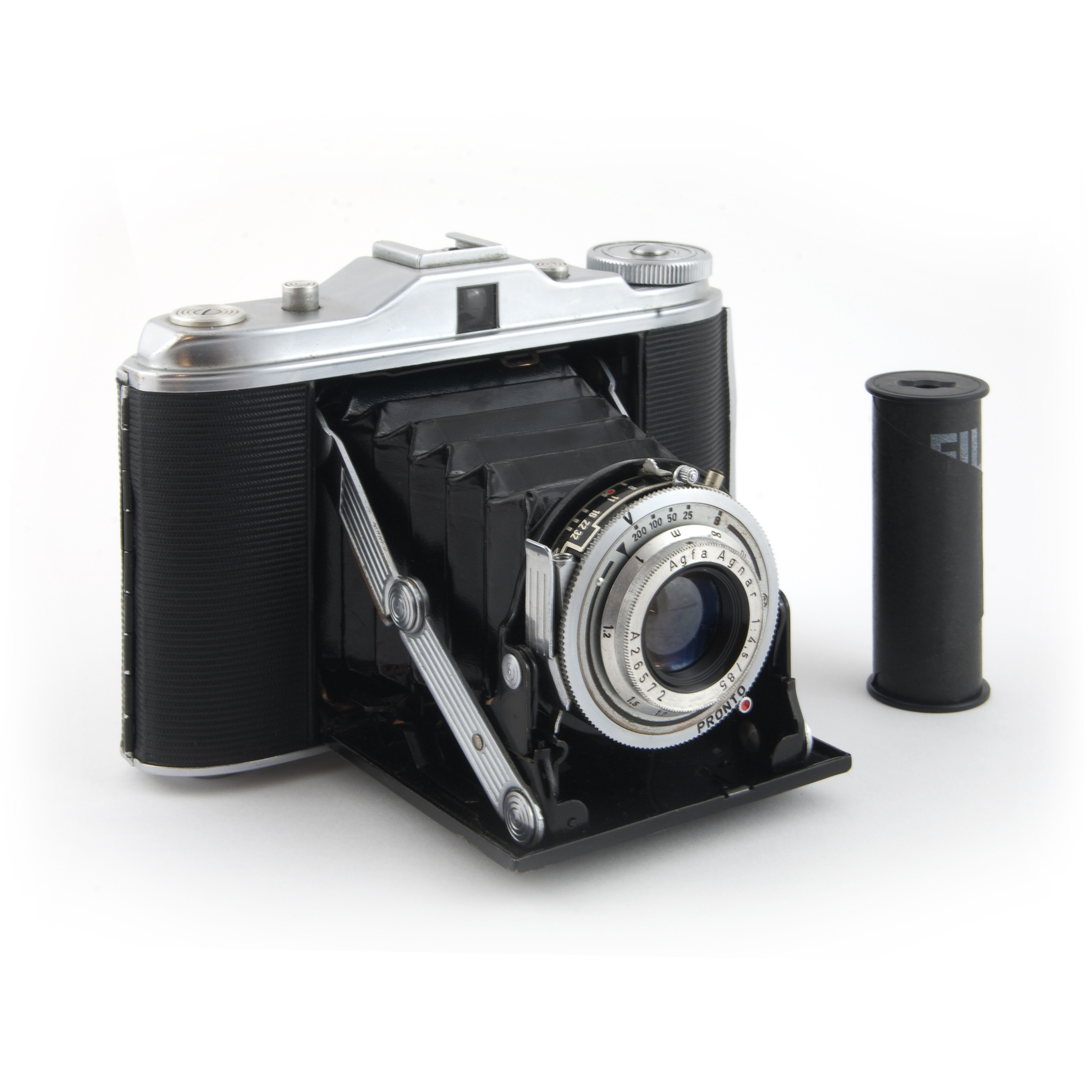 Agfa Isolette I camera with role of 120 film for scale.